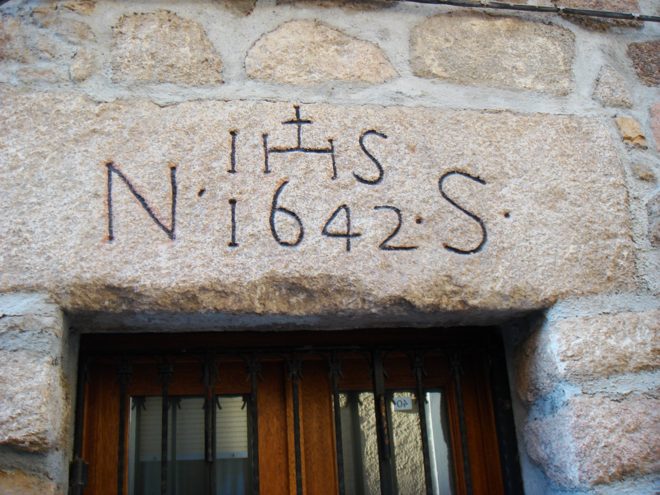 Old inscriptions (Olbia, Italy). Picture by Stefano Bolognini.